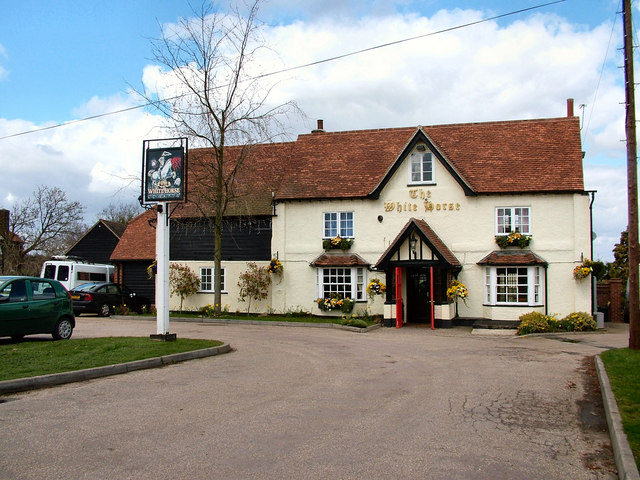 The White Horse, Burnham Green A nice pub/restaurant facing on to the village green